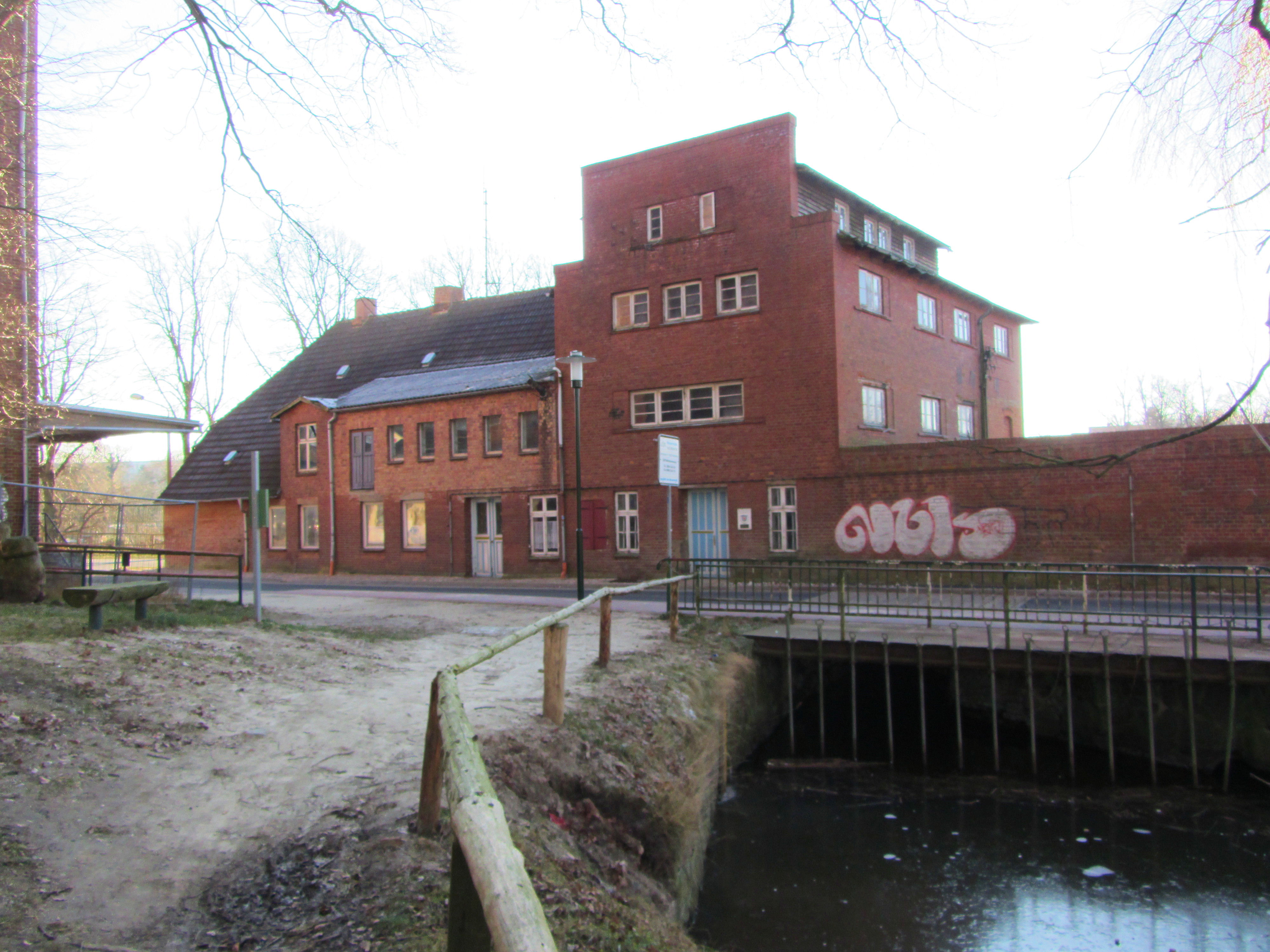 Former watermill/hydroelectric power plant in Neubukow, district Rostock, Mecklenburg-Vorpommern, Germany